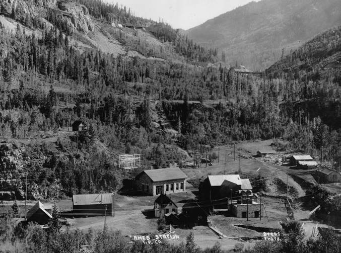 Ames Hydroelectric Plant, Ames vicinity, San Miguel County, CO GENERAL VIEW OF AMES POWER STATION. 1905 POWER HOUSE AT CENTER OF PHOTO, 1895